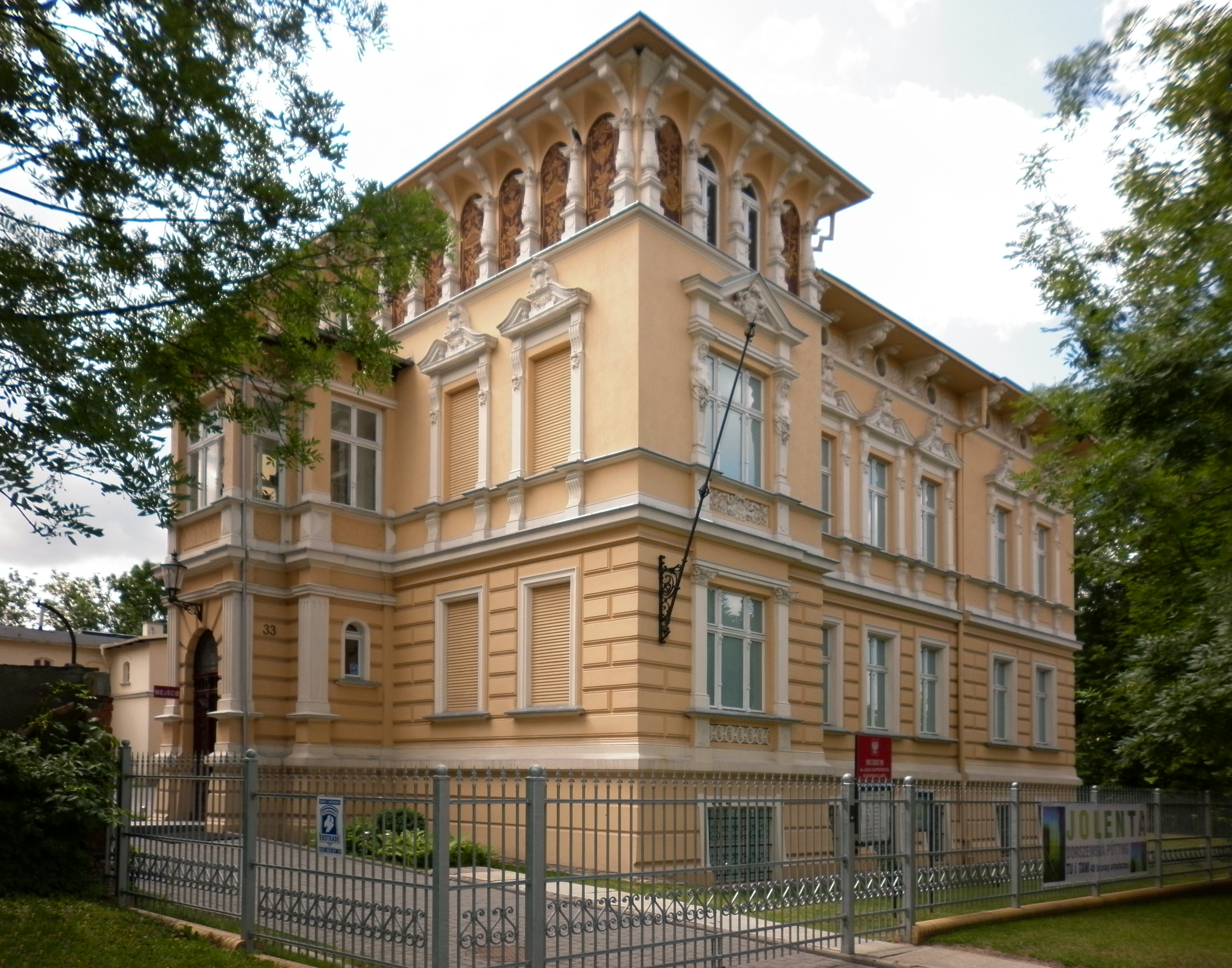 Jan Kasprowicz museum in Inowrocław